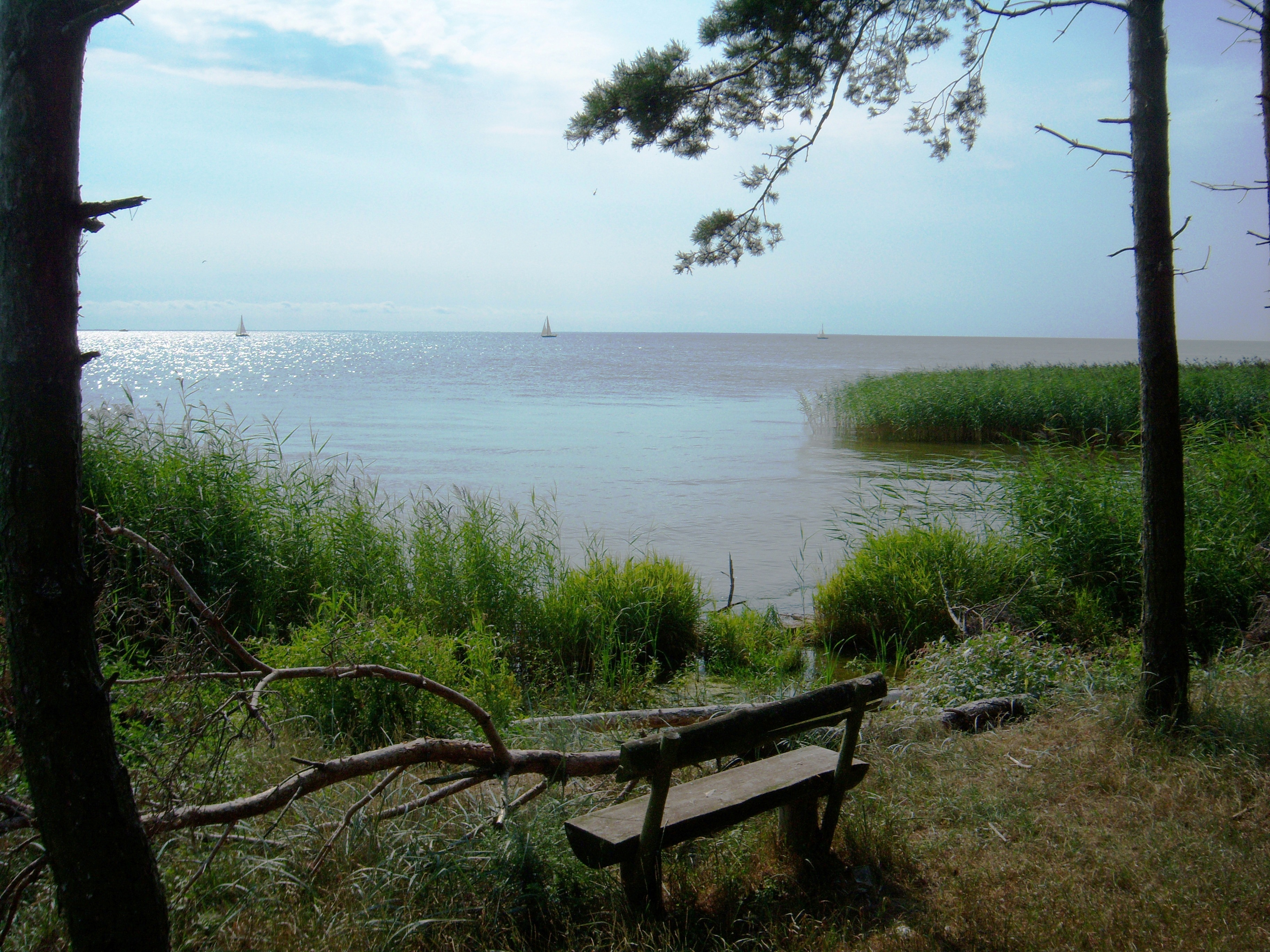 Coast of Bulvikis Cape between Preila and Nida, Neringa, Lithuania